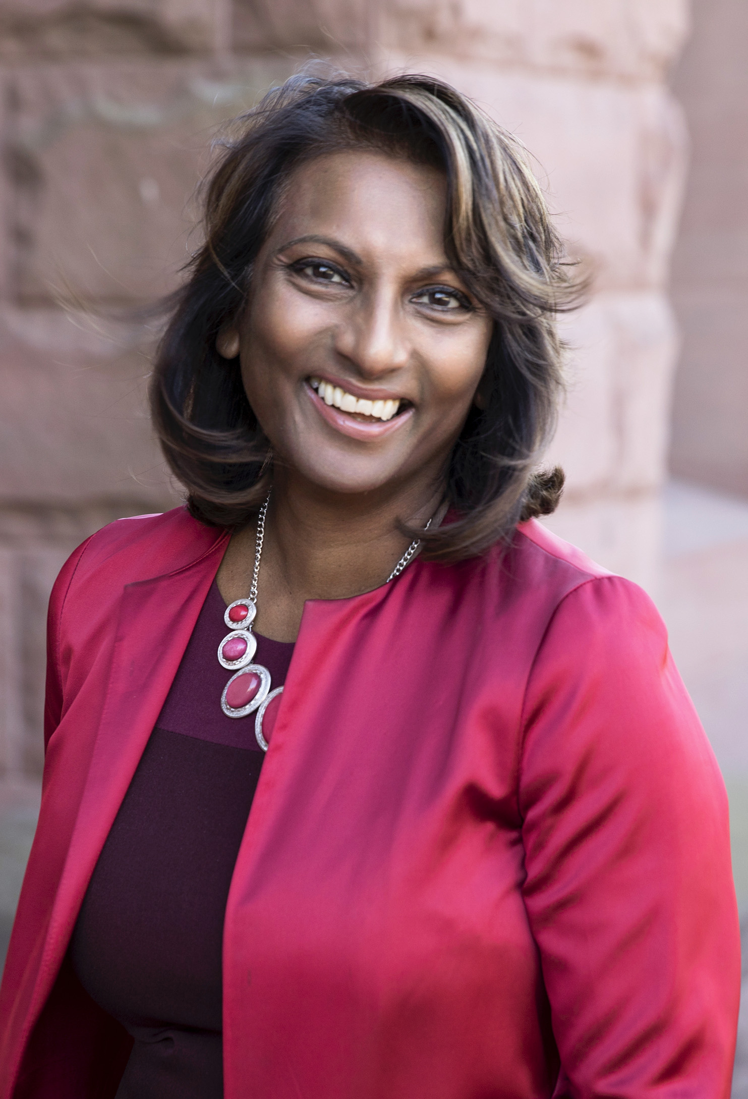 Indira Naidoo-Harris headshot